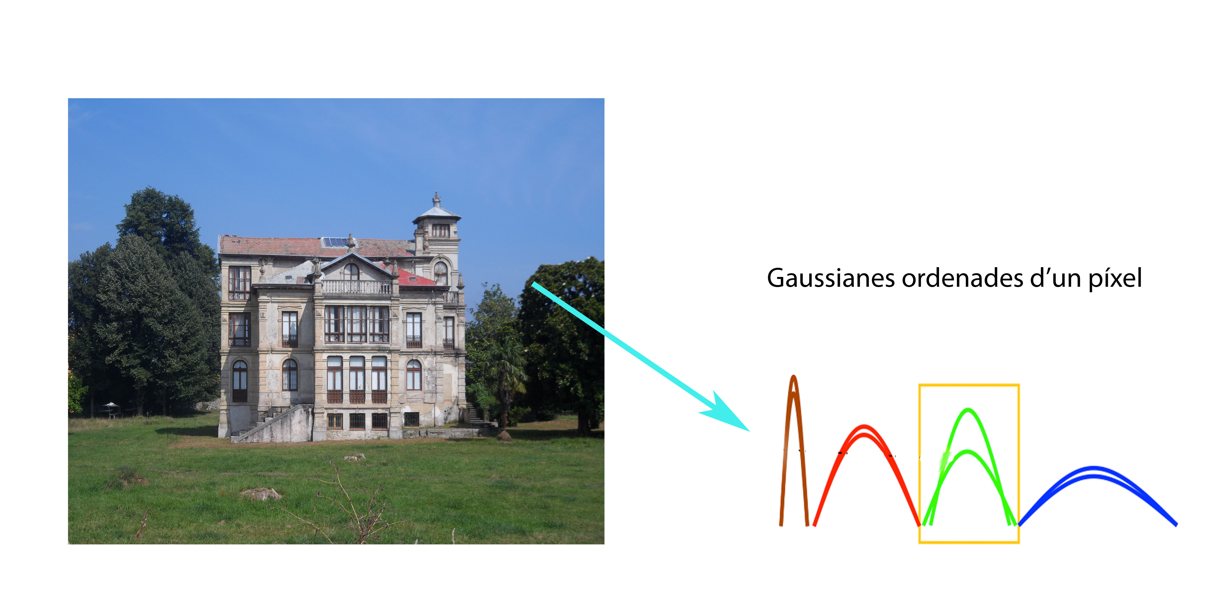 Ordenació de les gaussianes segons el seu pes en la imatge.